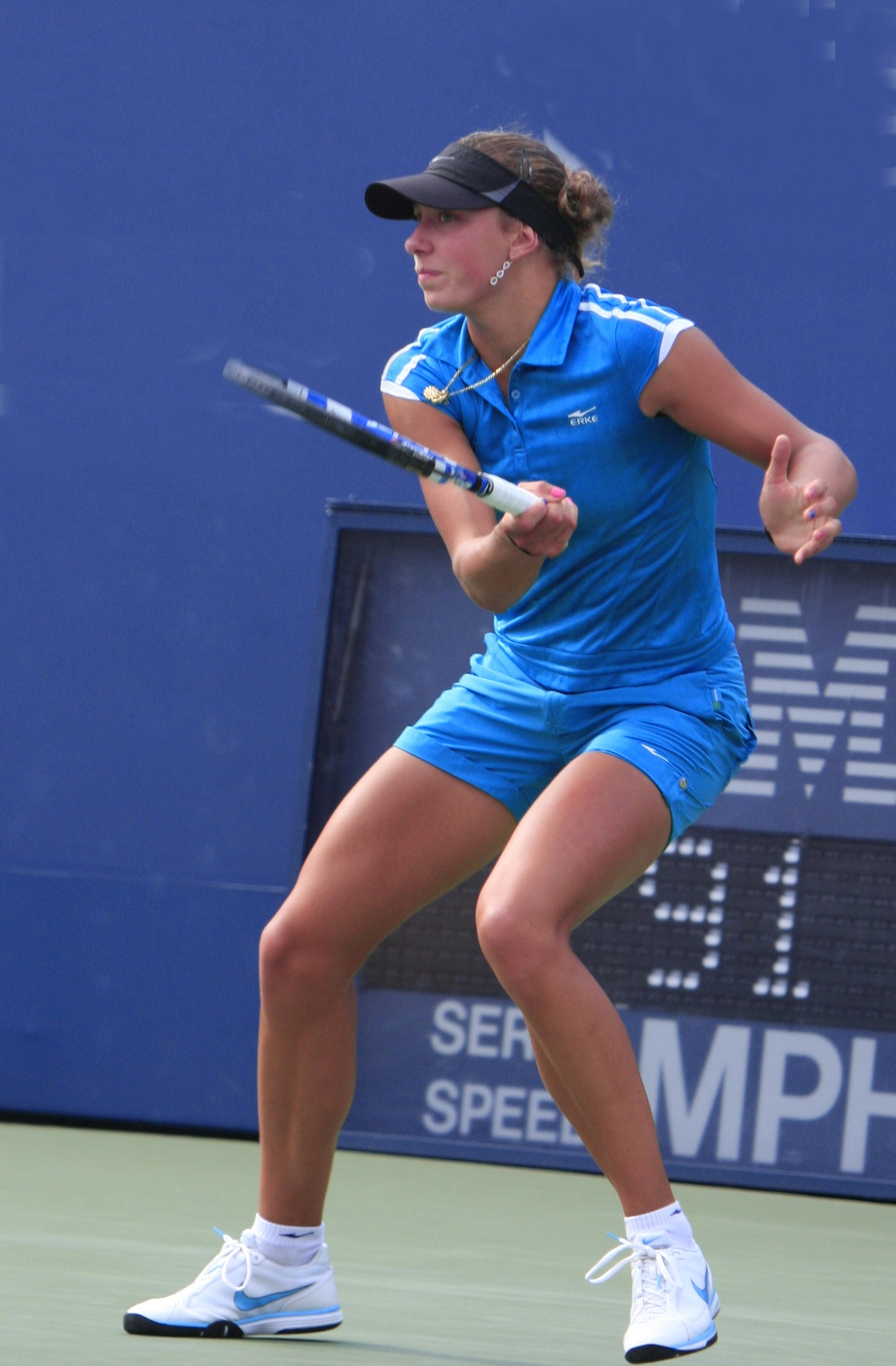 Yanina Wickmayer forehand return to Petra Kvitova at 2009 US Open